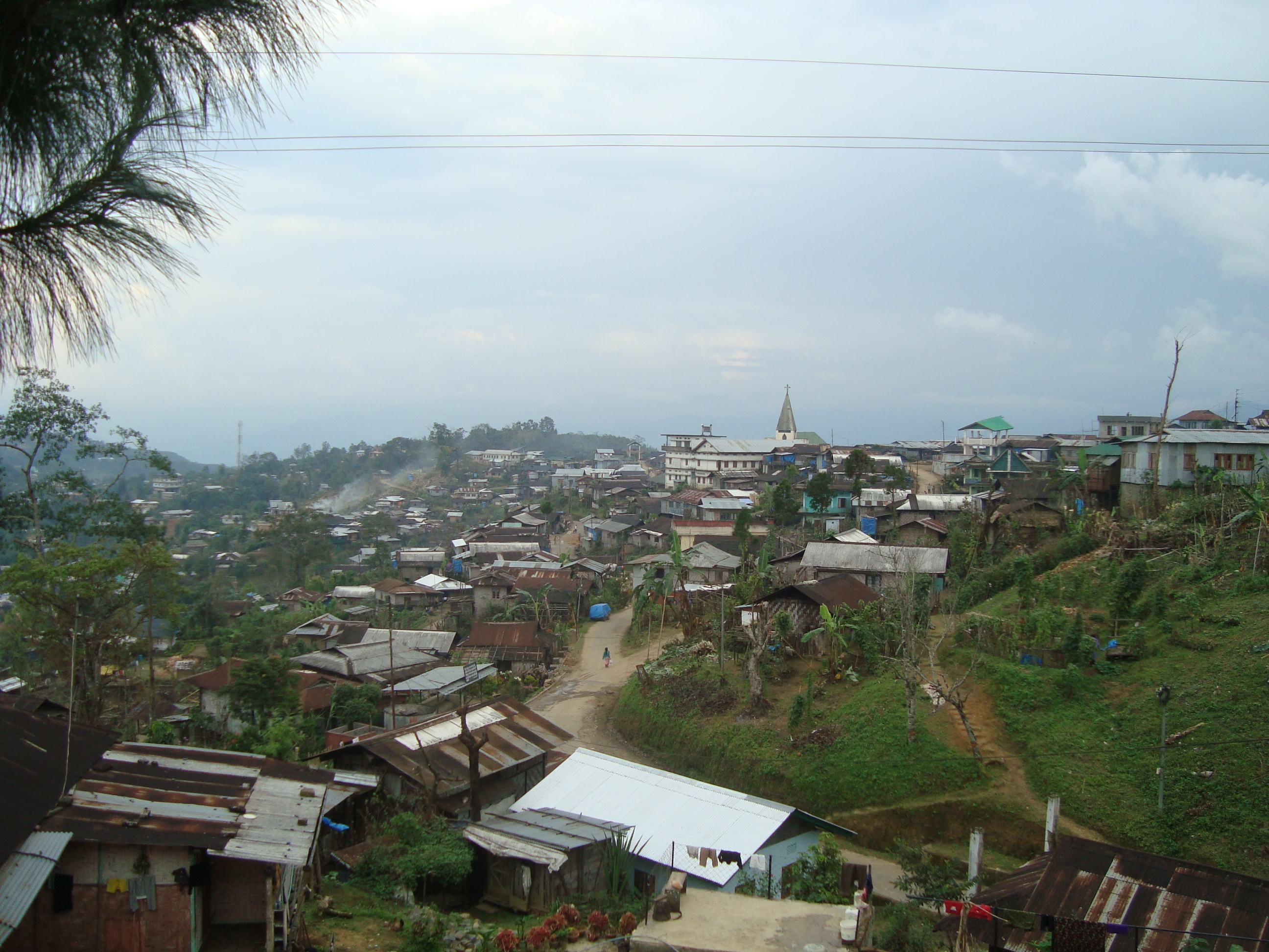 Mokokchung Village Skyline